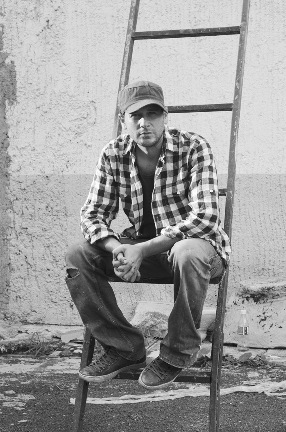 Photo of Jeremy Penn for new article